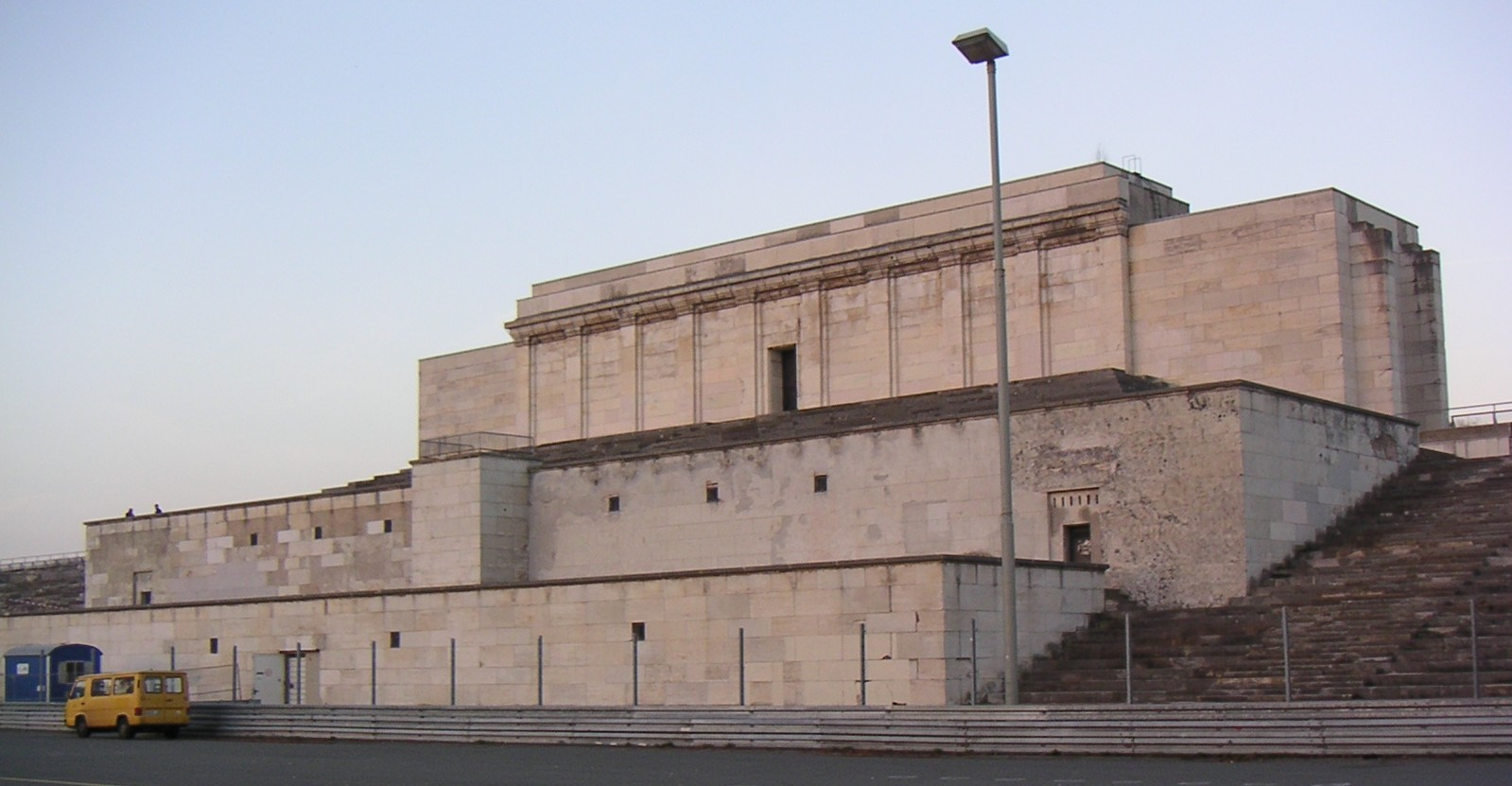 Area of the Reichsparteitage in Nuremberg: “Zeppelinfeld”